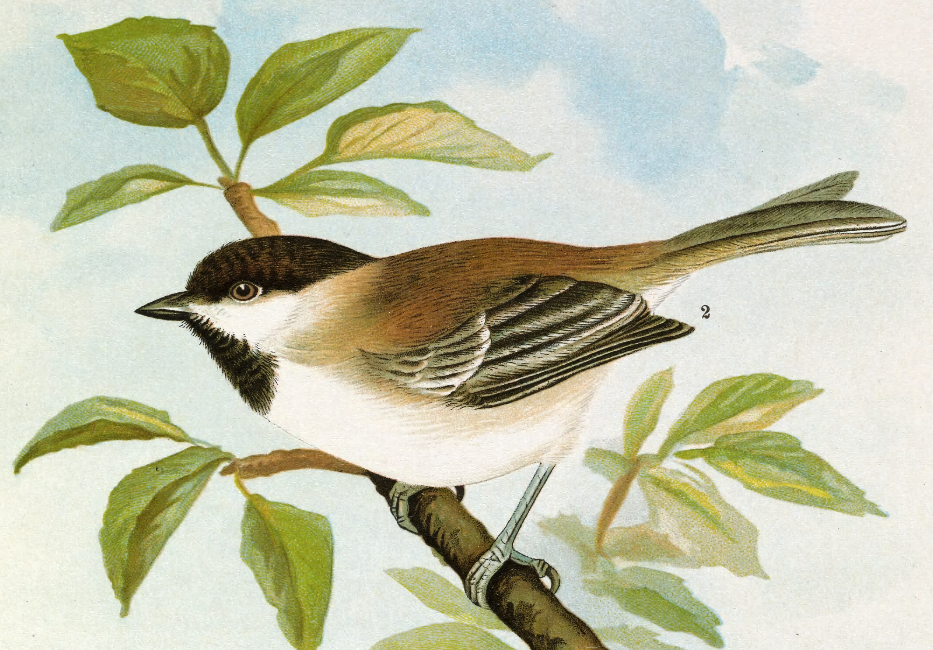 Parus lugubris Naumann